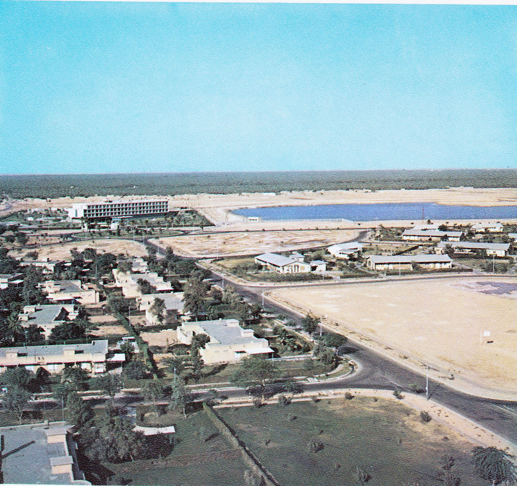 National Iranian Oil Company employee housing with a lake in Abadan.